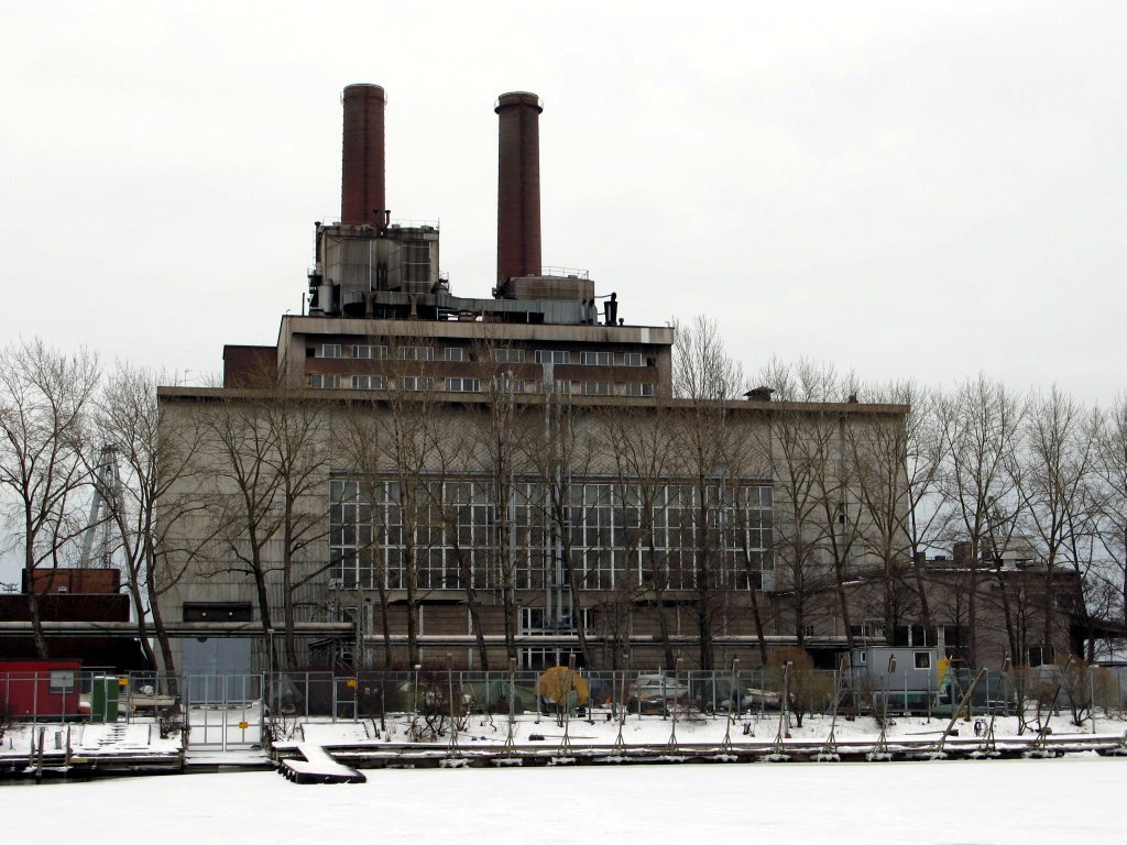 Hanasaari, a powerplant in Helsinki, Finland (light balanced version)